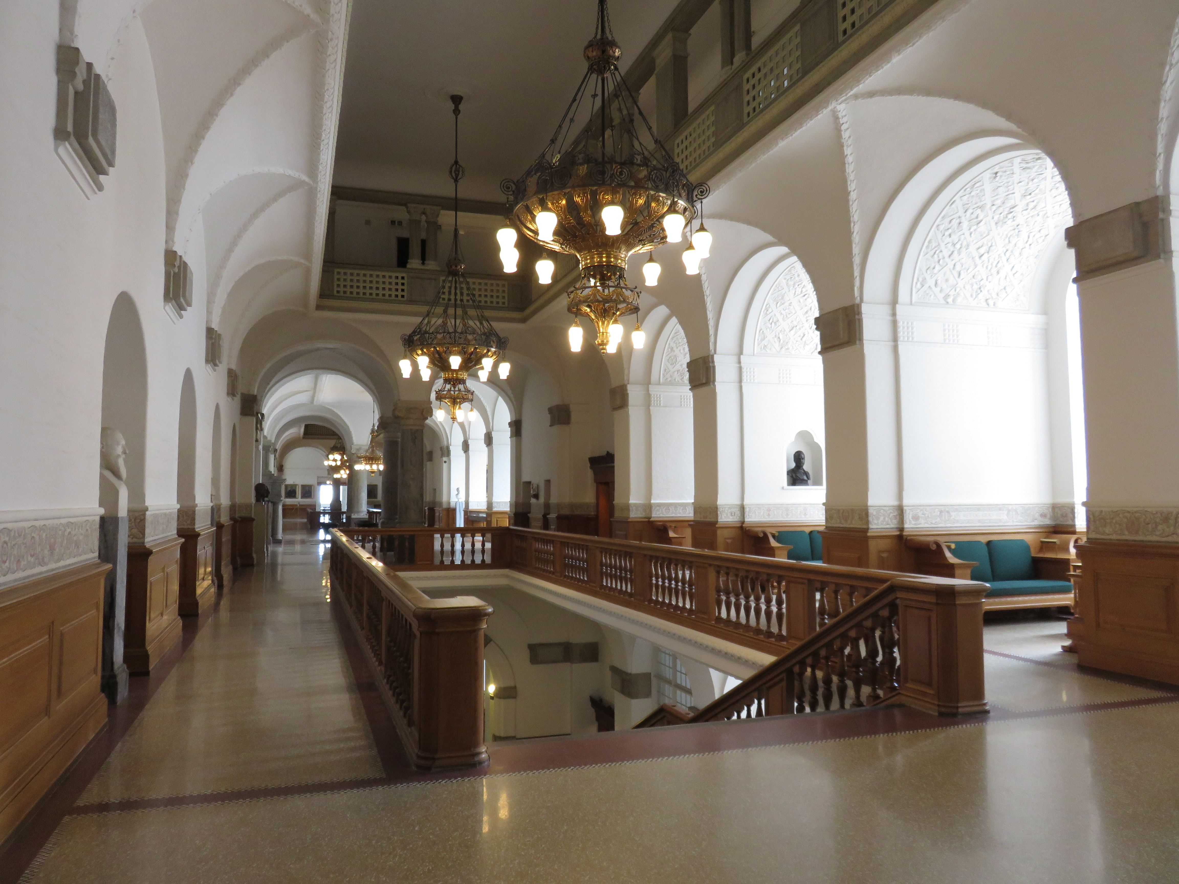 Lobby (Vandrehallen) in Christiansborg Palace, Copenhagen, Denmark in 2018